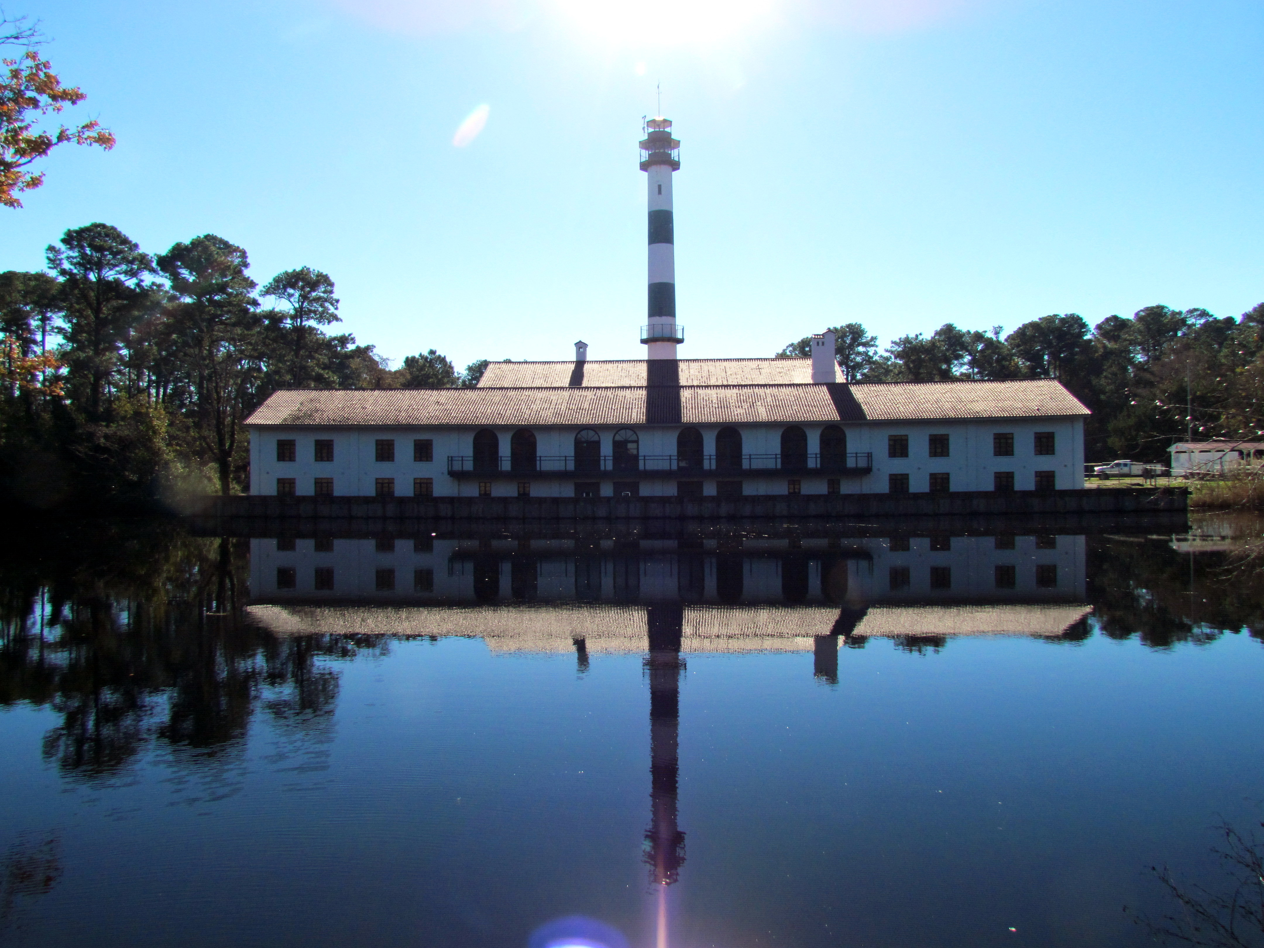 Pumping Station Mattamuskeet NWR Fairfield NC 8957